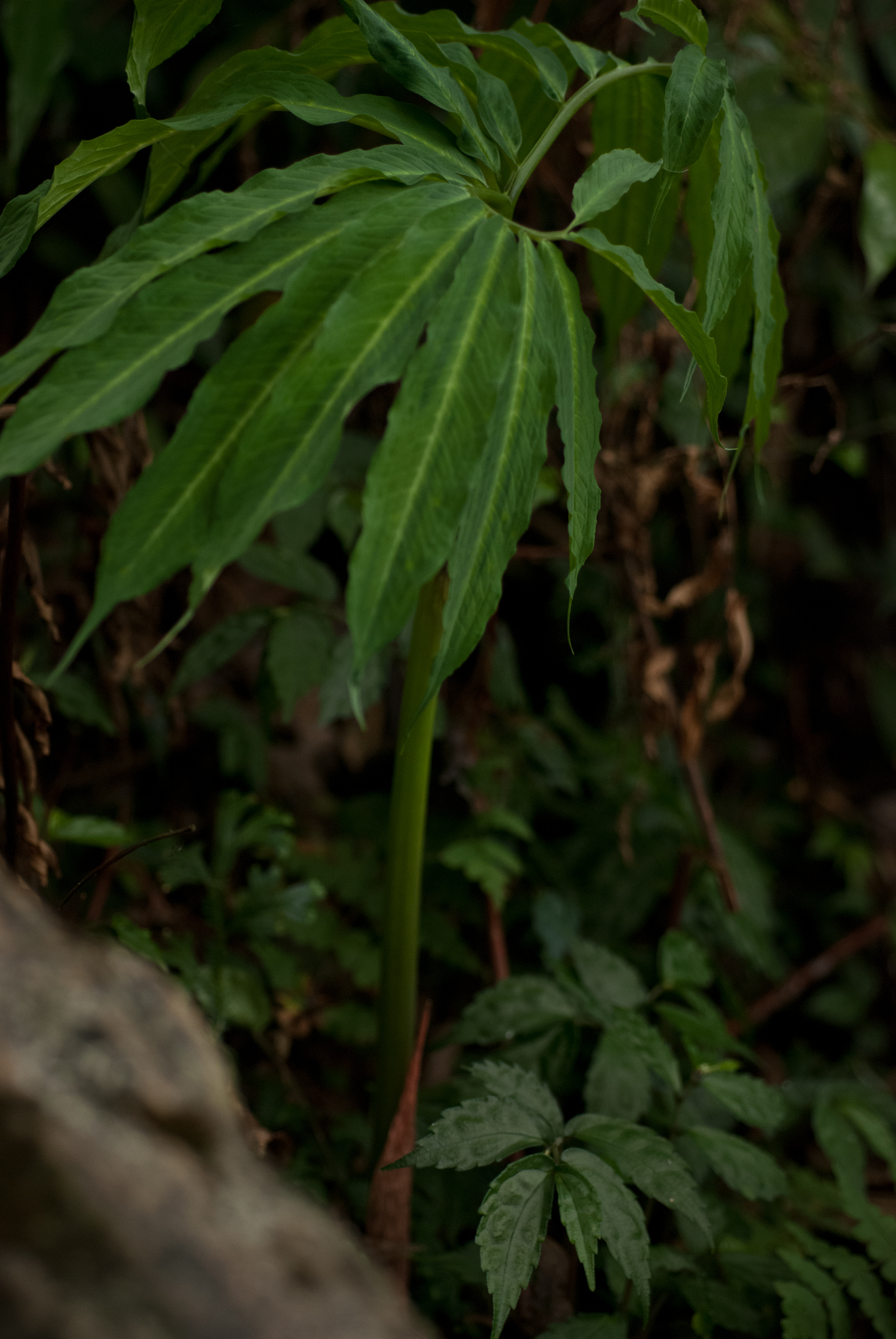 Arisaema heterophyllum.